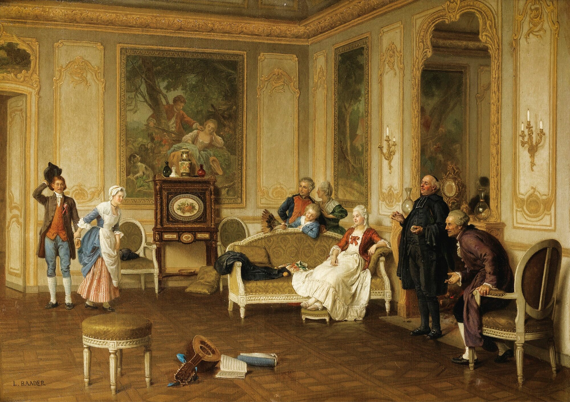 Rococo style